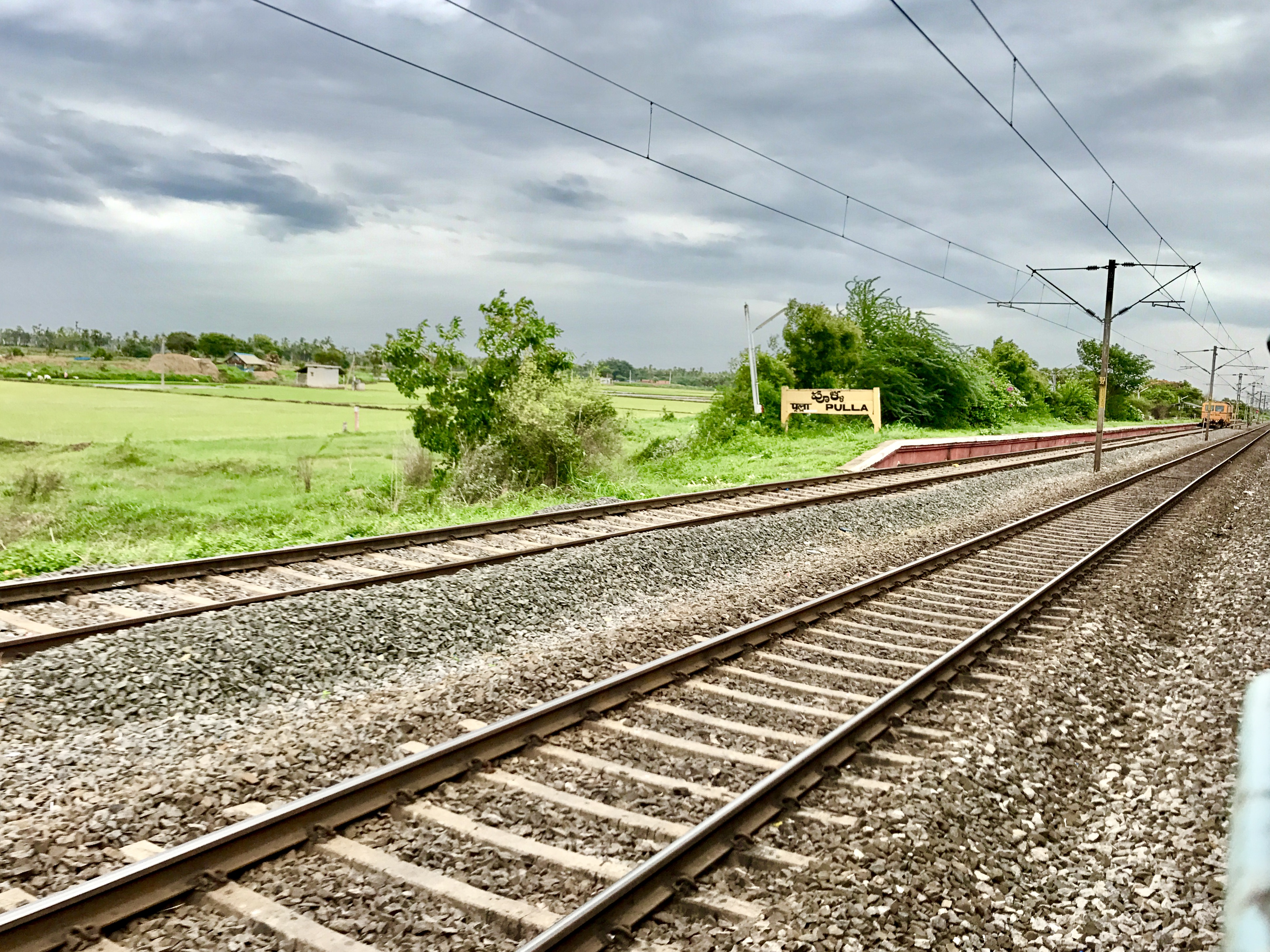 Pulla Railway Station board